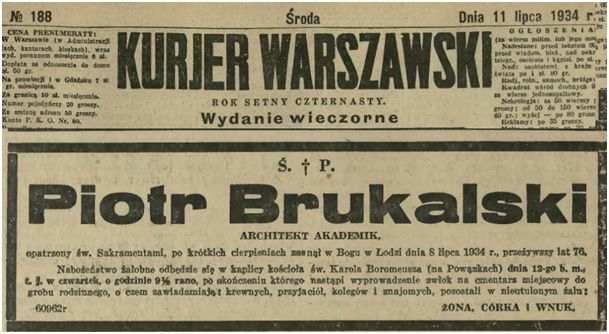 Necrology of the architect Piotr Brukalski